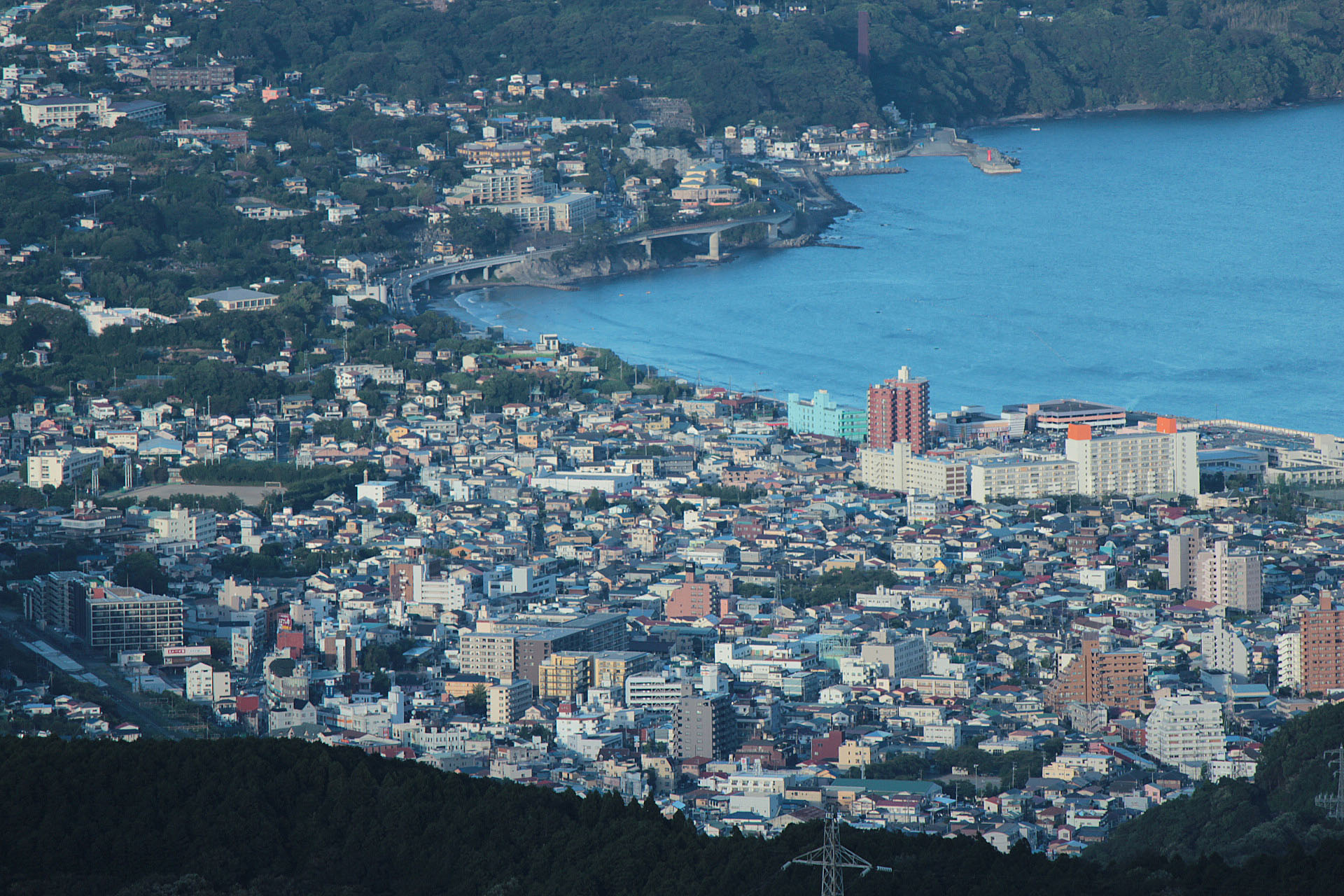 Downtown of Yugawara as seen from the west by south. Taken from Jukkoku Pass.